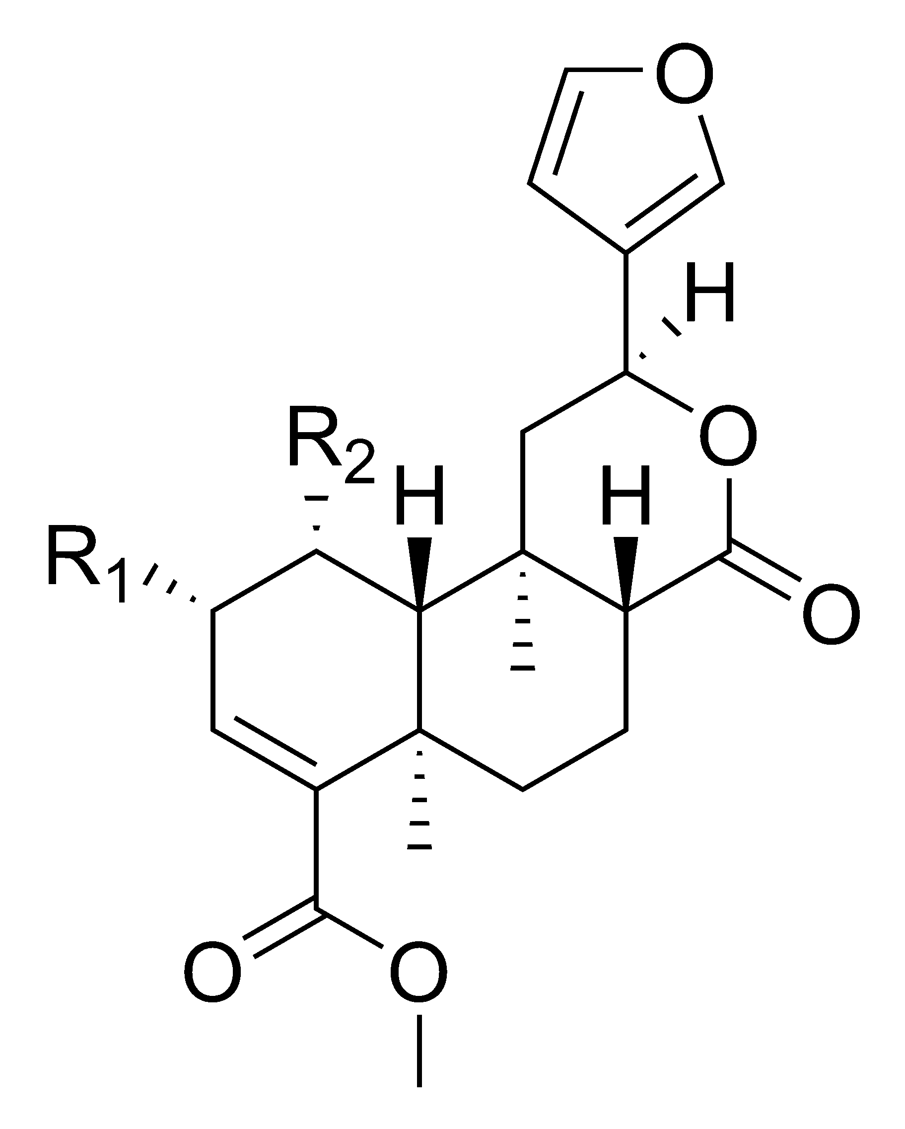 Chemical structure of salvinorin D, E and F.